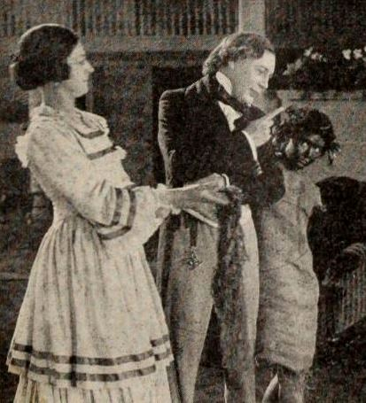 Still for the American drama film Uncle Tom's Cabin (1918) with an unidentified actress and actor and Marguerite Clark (in blackface), on page 33 of the July 20, 1918 Exhibitors Herald.